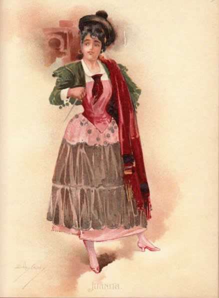 1894 illustration of Emmie Owen in The Chieftain